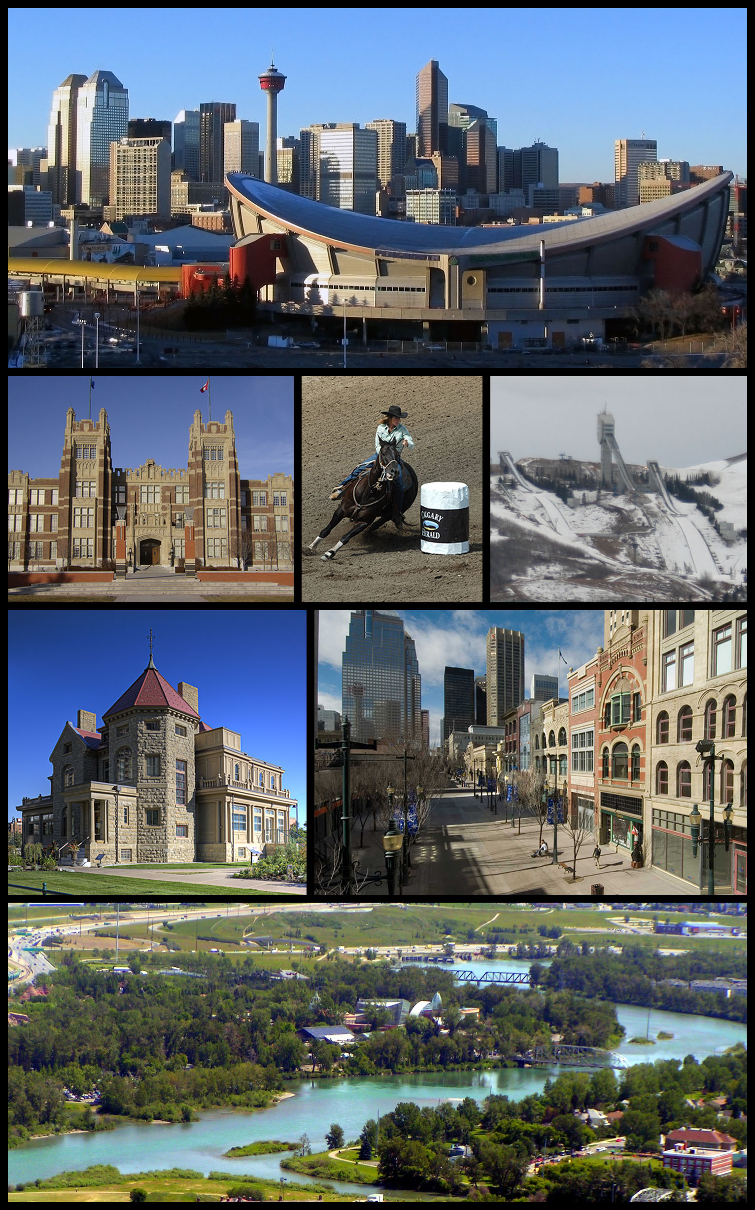 From top left, the Saddledome and downtown Calgary, Heritage Hall at SAIT Polytechnic, barrel racing at the Calgary Stampede, Canada Olympic Park, Lougheed House, historic buildings on Stephen Avenue, and the Bow River surrounding the Zoo in Calgary.